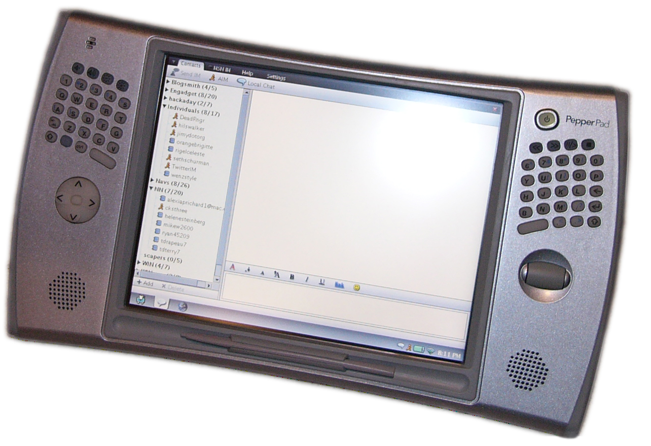 From flickr, under a Creative Commons Attribution-ShareAlike 2.0 license. Author = Flickr user: eliotphillips Date uploaded = May 15, 2007 URL =